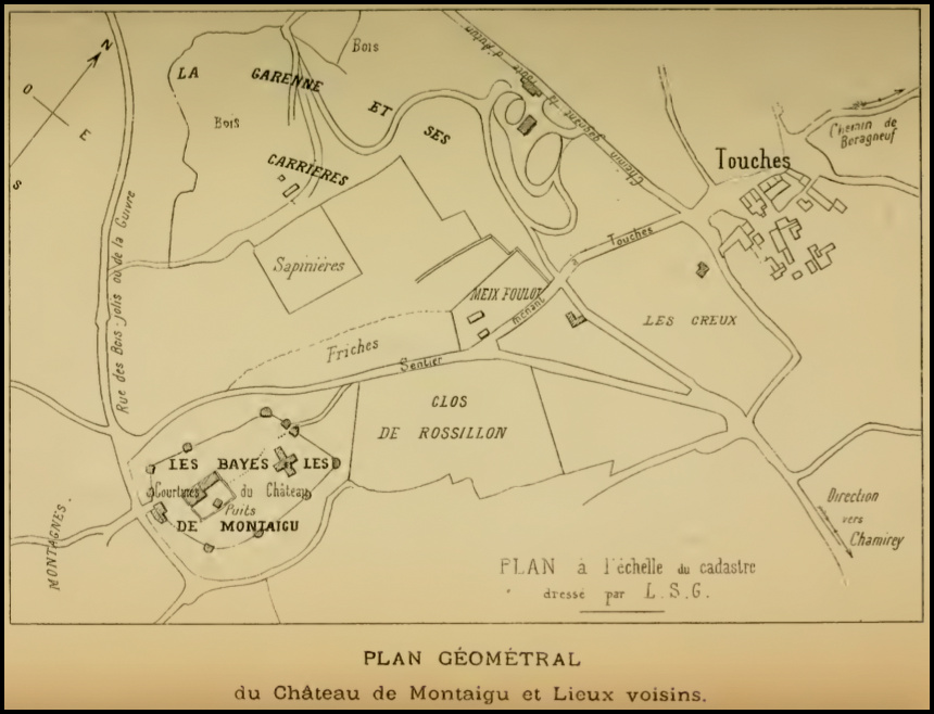 map castle Montaigu burgundy